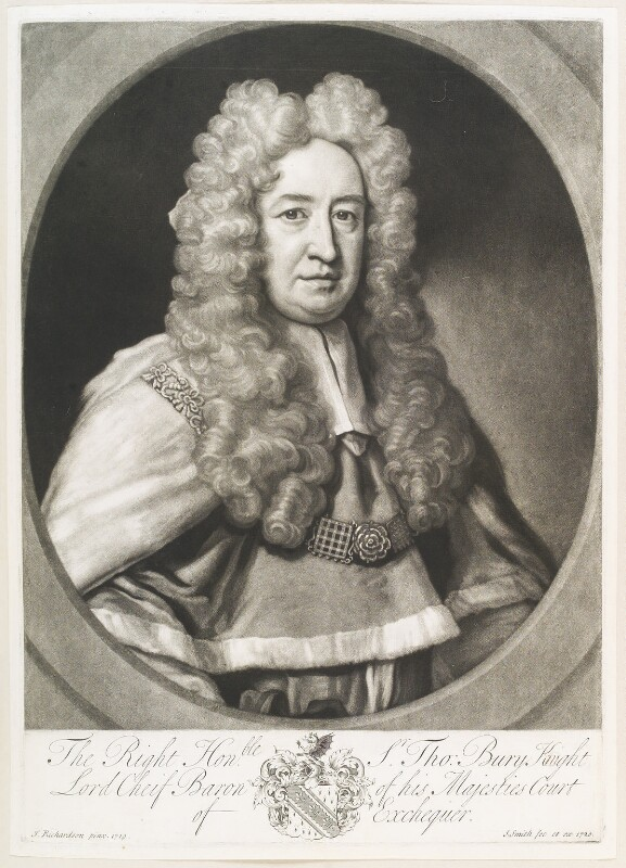 Portrait of Thomas Bury (1655–1722), English judge.